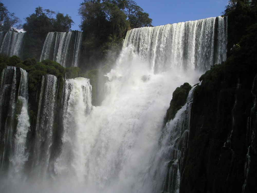 This is a picture I took when I went to Iguazu Falls myself. Let me know if you like this one, because I have several other pictures I could add also. You are free to use this picture anywhere as long as you credit me. If it's going to be outside of Wikipedia, please let me know so I could give you a name I want to be credited by, and I also just simply want to know where it'll be used :)